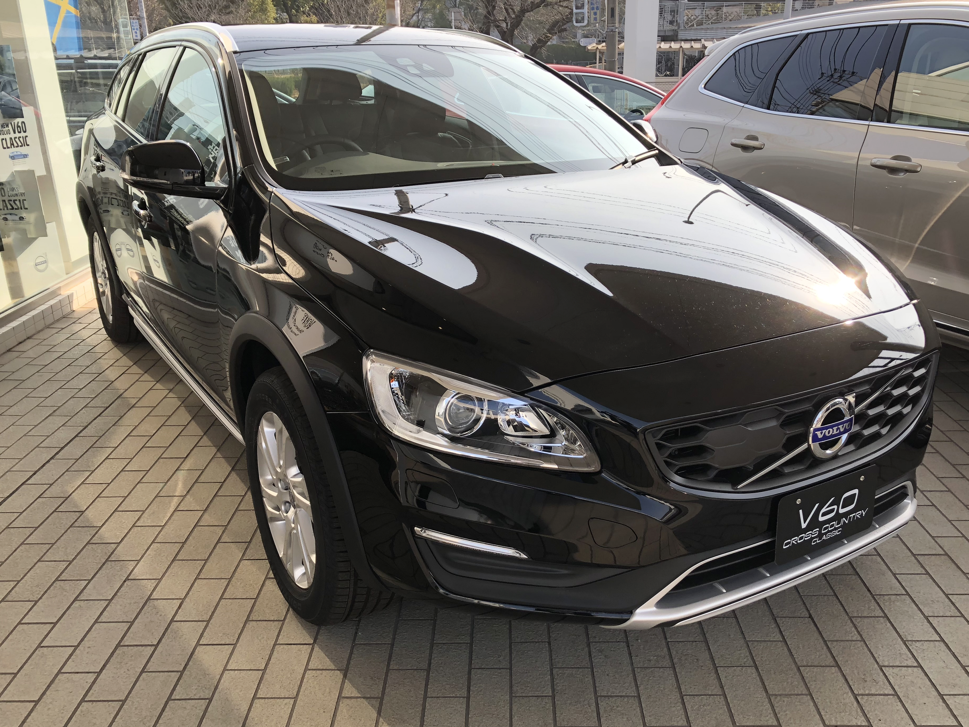 VOLVO V60 Cross Country D4 Classic FRONT(JPN).Photographed in Japan.